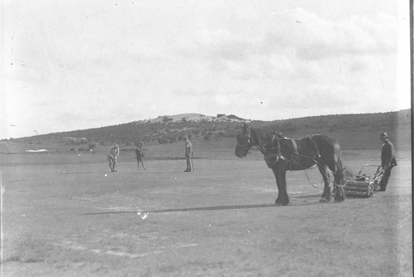 The horse-drawn mower makes a vignette of a player putting